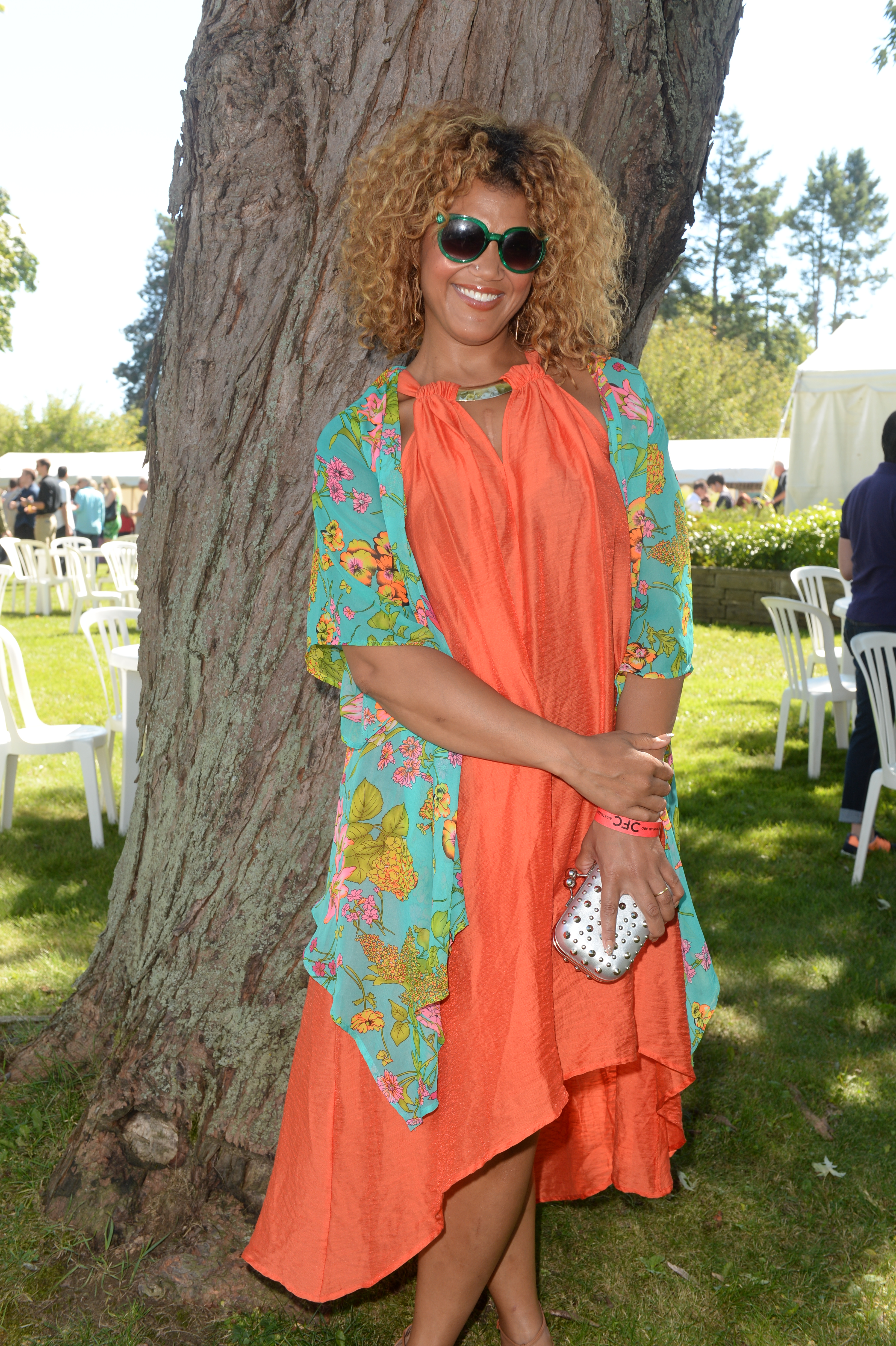 Measha Brueggergosman at CFC Annual BBQ Fundraiser 2014